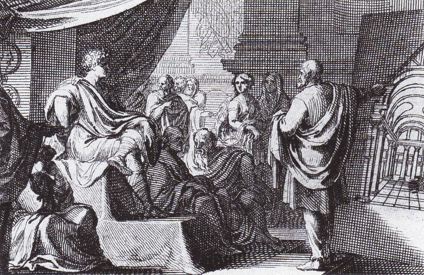 A depiction of Vitruvius presenting De Architectura to Augustus.